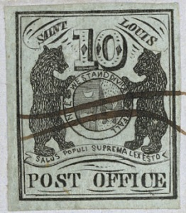 Provisional postal stamp issued by the postmaster of St. Louis, Missouri, in 1845-46, valued at ten cents and printed in black on pale green paper. It shows the Coat of arms of Missouri, supported by two bears, with the motto "Salus populi suprema lex esto" ("the will of the people shall be the supreme law"). The stamp has been used and has been cancelled with two pen strokes. Held and digitised by the British Library.